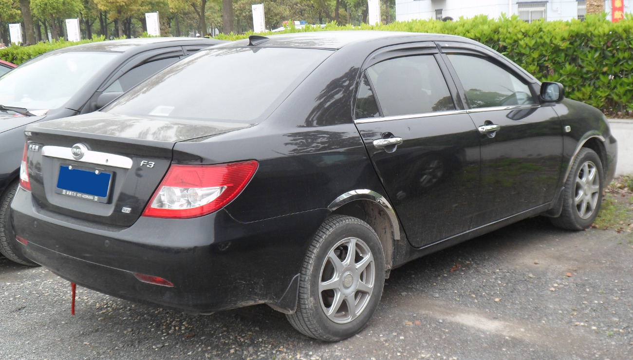 BYD F3 photographed in Anting, Shanghai municipality, China.